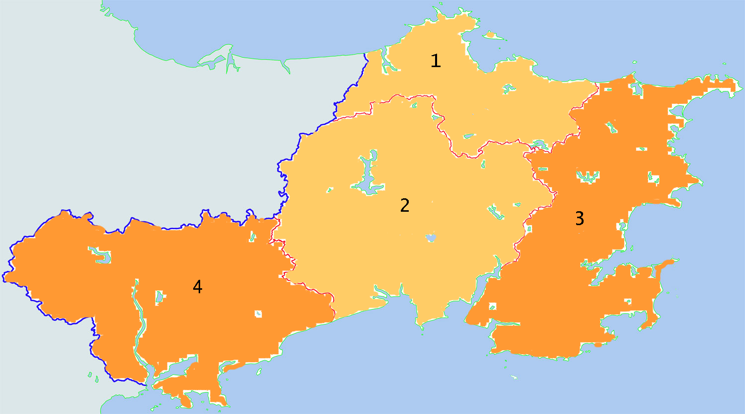 Municipalities of Weihai city in Shandong province, China